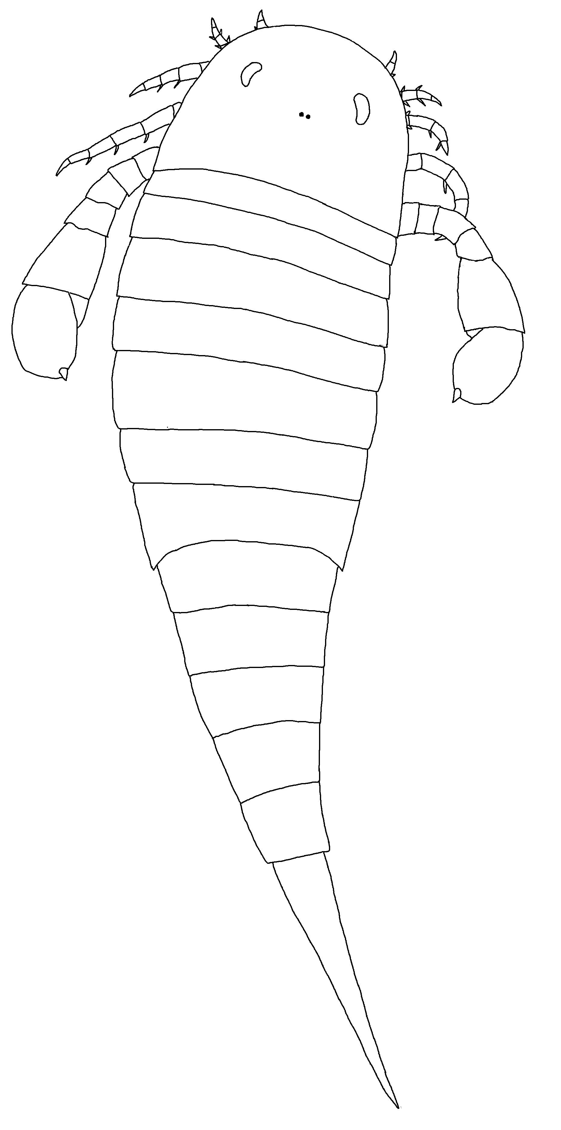 Restoration of a male specimen of Parahughmilleria hefteri.